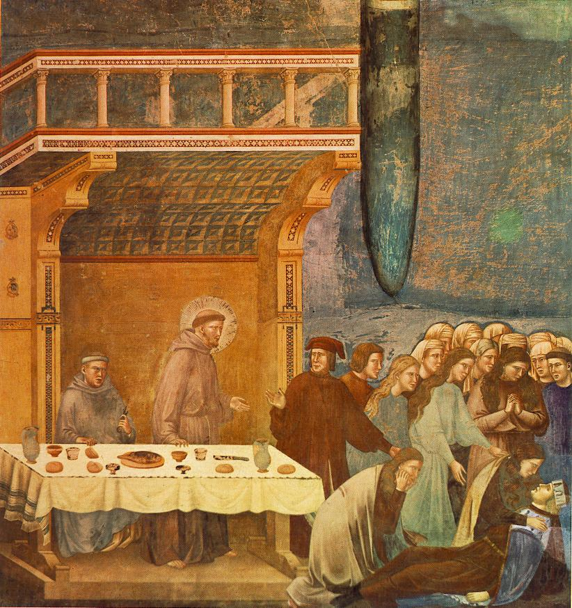 Legend of St Francis